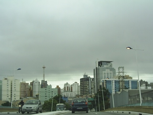 Central business district of São Caetano do Sul.